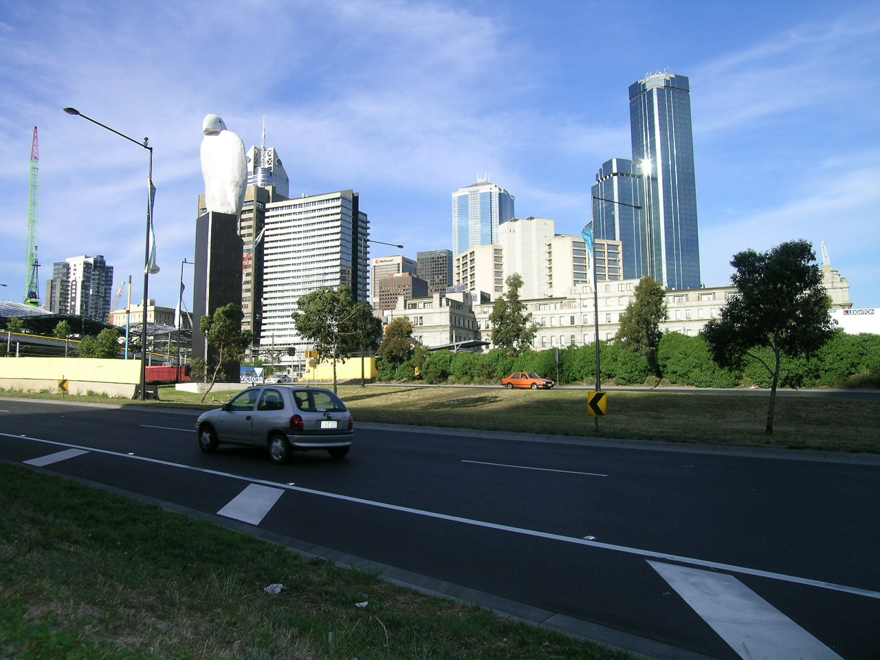 Sculpture Eagle by Bruce Zrmstrong in Melbourne Docklands/Australia